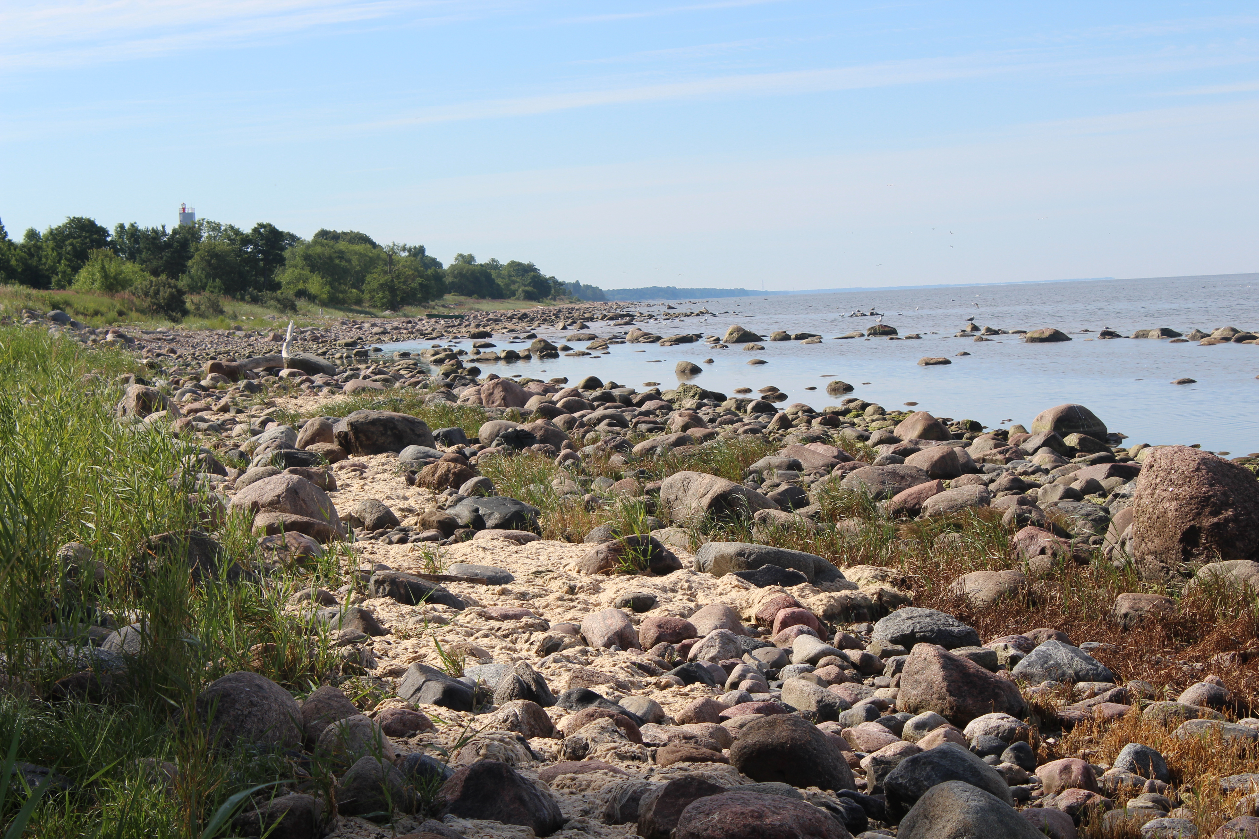 Vidzeme seaside and Lāču lighthouse, Liepupe parish.